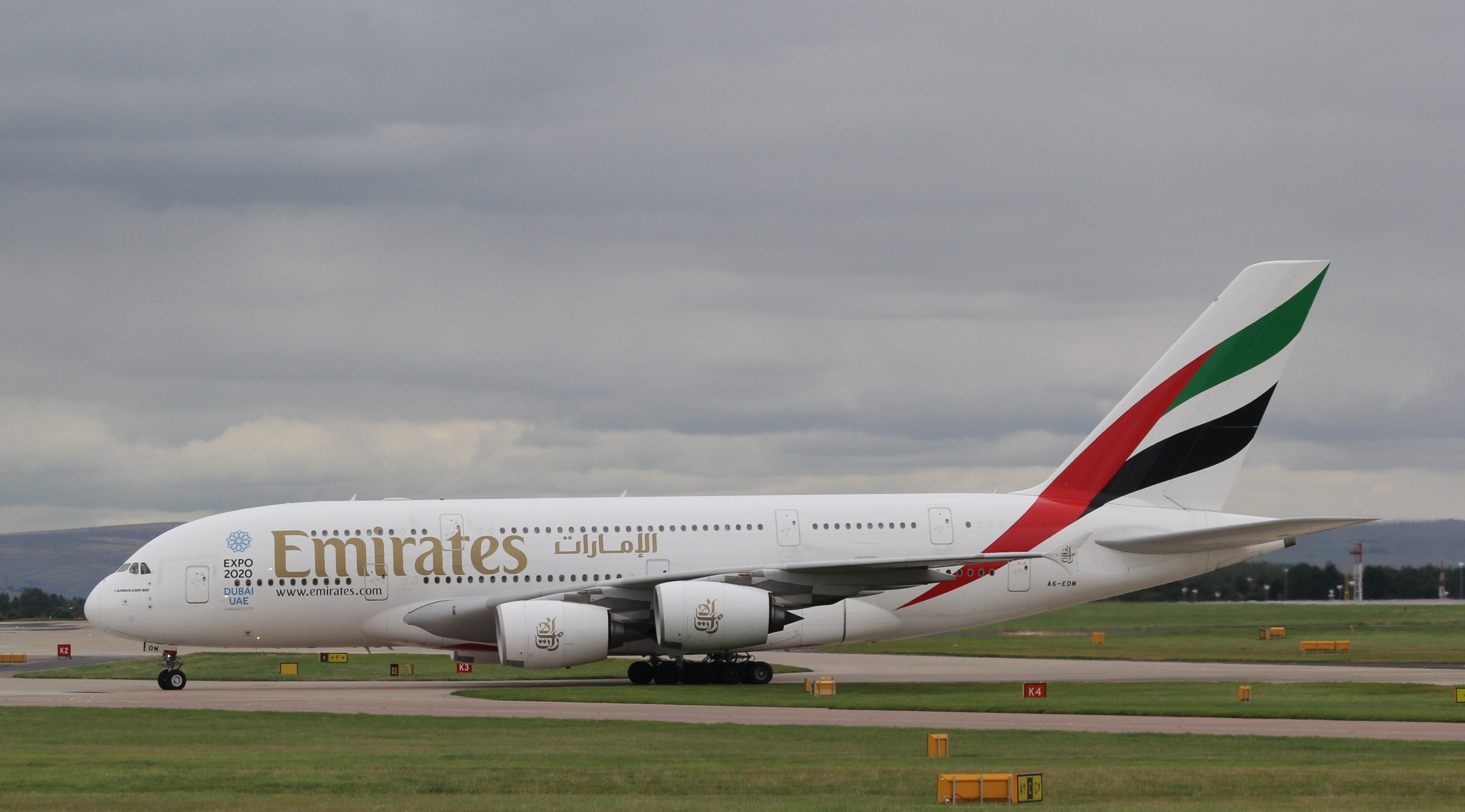 Emirates Airlines Airbus A380-861